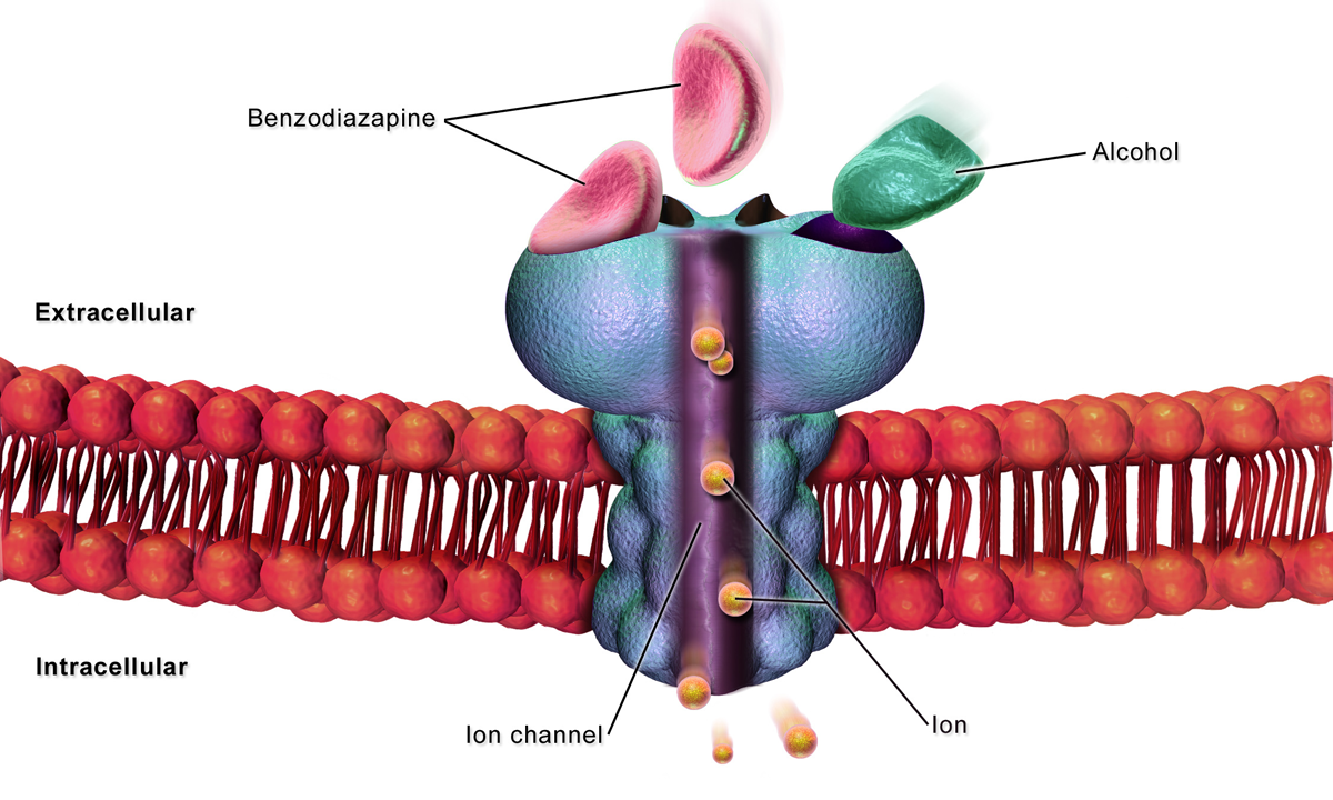 Cell GABA Receptor. This image was donated by Blausen Medical. Please visit our website to see more medical illustrations and animations.